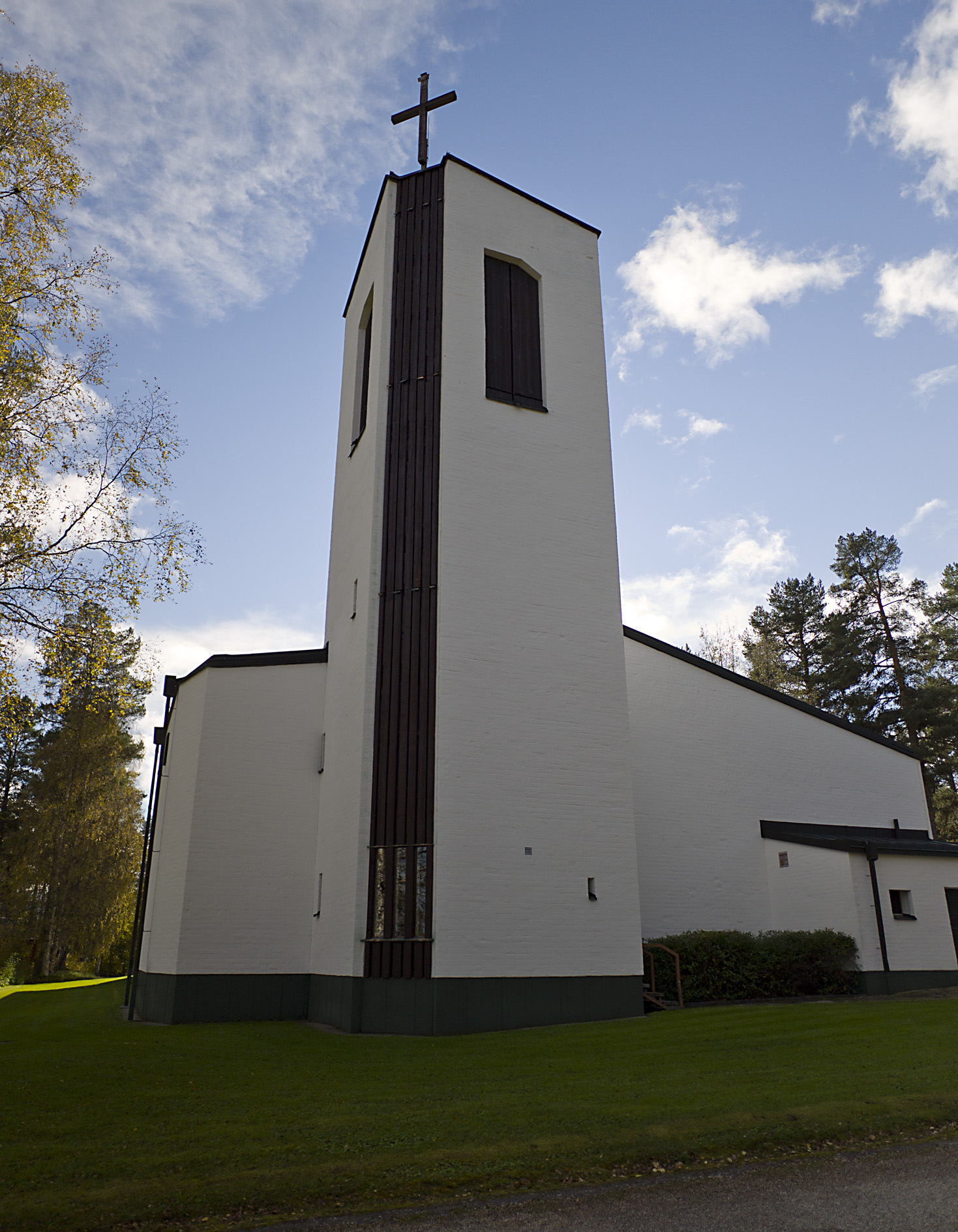 The New Church of Åsarna